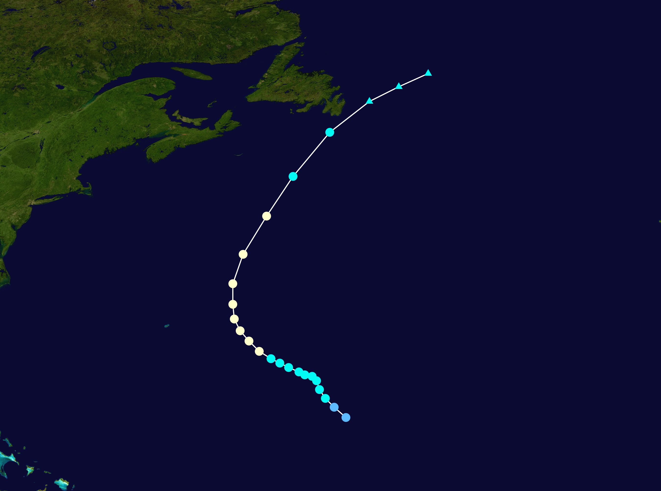 Track map of Hurricane Isaac of the 2006 Atlantic hurricane season. The points show the location of the storm at 6-hour intervals. The colour represents the storm's maximum sustained wind speeds as classified in the Saffir–Simpson scale (see below), and the shape of the data points represent the nature of the storm, according to the legend below. Saffir–Simpson scale Tropical depression≤38 mph≤62 km/h Category 3111–129 mph178–208 km/h Tropical storm39–73 mph63–118 km/h Category 4130–156 mph209–251 km/h Category 174–95 mph119–153 km/h Category 5≥157 mph≥252 km/h Category 296–110 mph154–177 km/h Unknown Storm type Tropical cyclone Subtropical cyclone Extratropical cyclone / Remnant low / Tropical disturbance / Monsoon depression